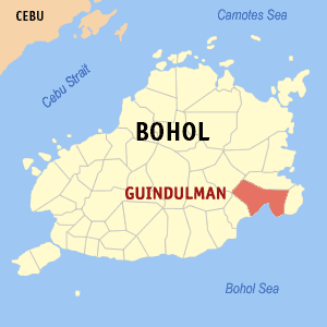 Map of Bohol showing the location of Guindulman